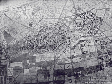 K.P.C. de Bazel. World Capital, plan. 1905.